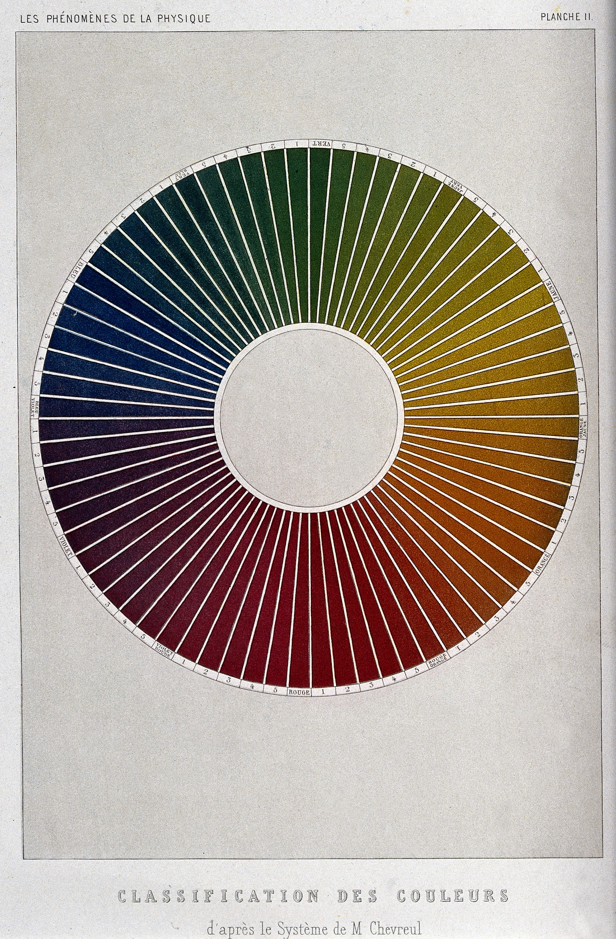 Optics: a colour-circle, after M. E. Chevreul. Coloured process print by R.H. Digeon, n.d. [c. 1868]. Iconographic Collections Keywords: Michel Eugene Chevreul; René Henri Digeon